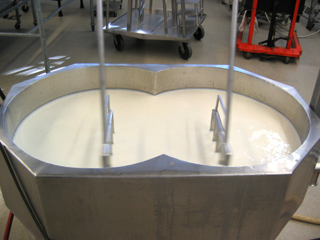 400lbs of Milk in cheese vat, undergoing pasteurization.